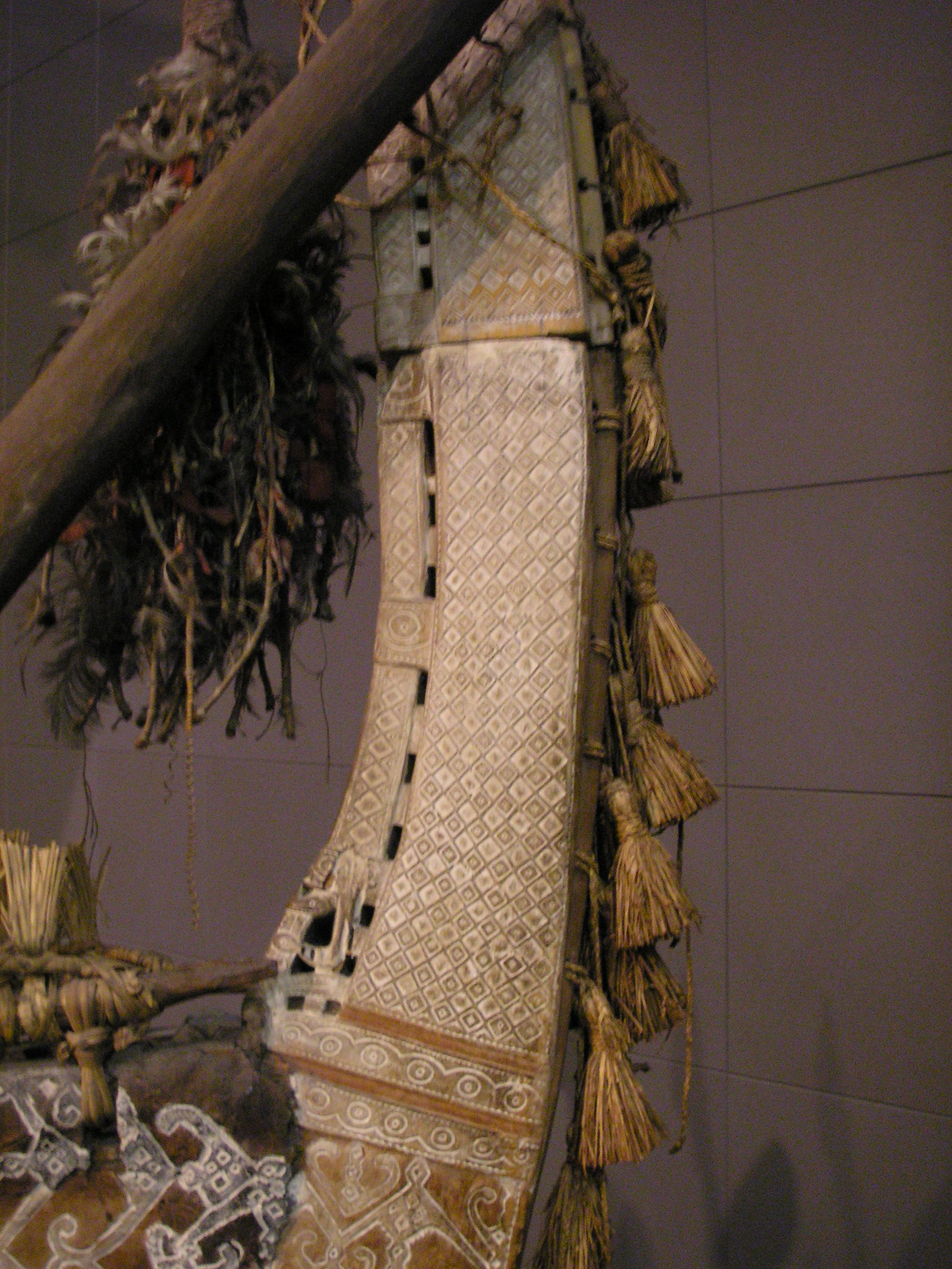 Detail of a blue-ocean ship from Luf off the coast of Papua New Guinea. This boat was constructed in 1890 and brought to Berlin in 1904. It was used by the native population of Luf for trade and warfare. For longer journeys into the open sea it could transport up to 50 persons. A platform was used to transport goods. To stabilise the ship depending on the winds, the crews would move to different locations on the ship, the platform, and a small "bridge". The ship itself was carved out of a single, large treetrunk. Plant adhesive was used for insulation against the water. The whole ship was constructed without a single nail, all parts are held together with plant material. The rectangular sails are typical for the region, but unusual for the wider Oceanic region. This ship is the last of its kind and kept at the Ethnologisches Museum, Berlin-Dahlem. The population of Luf became extinct in 1940.